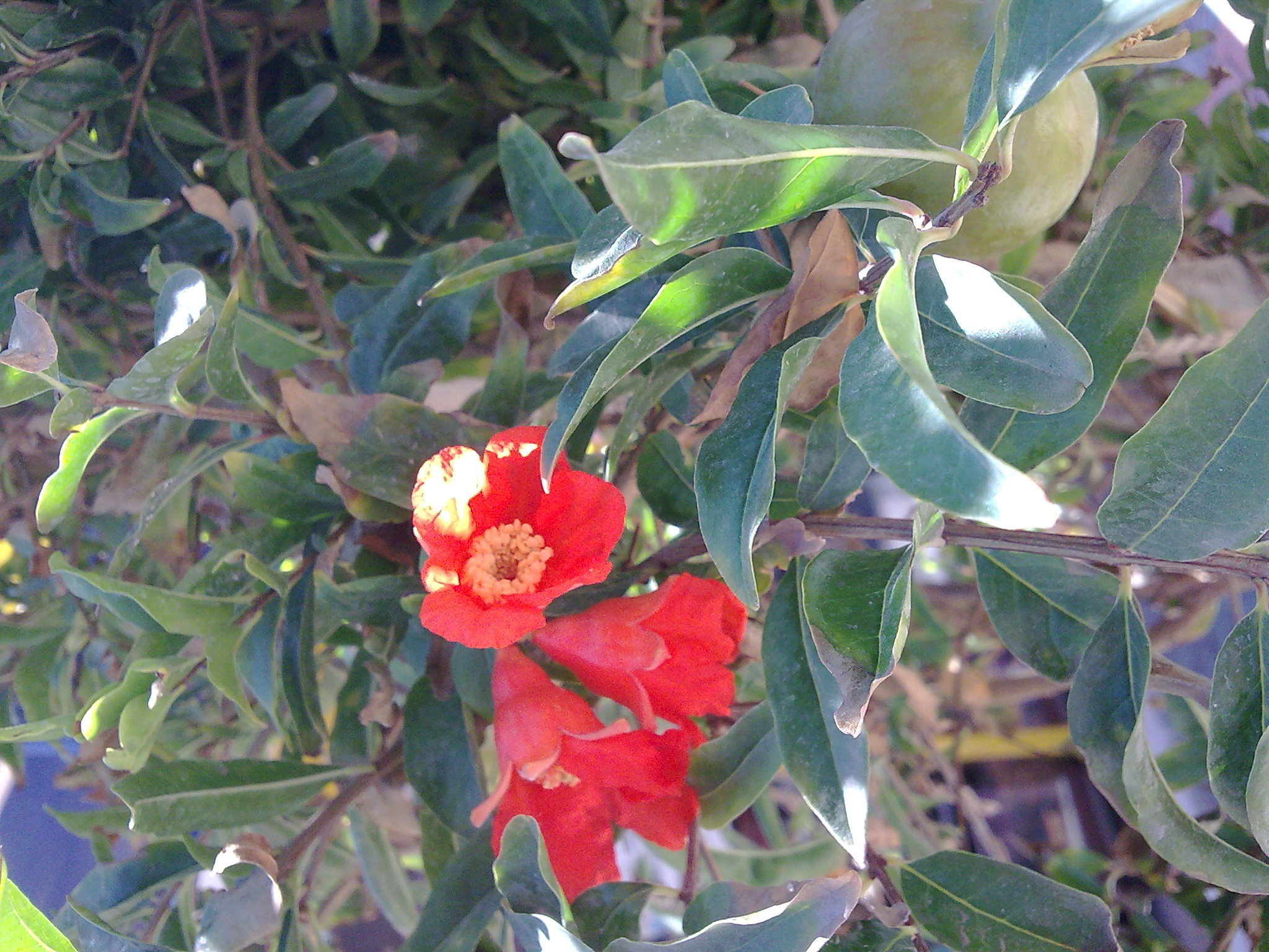 Pomegranate flowers